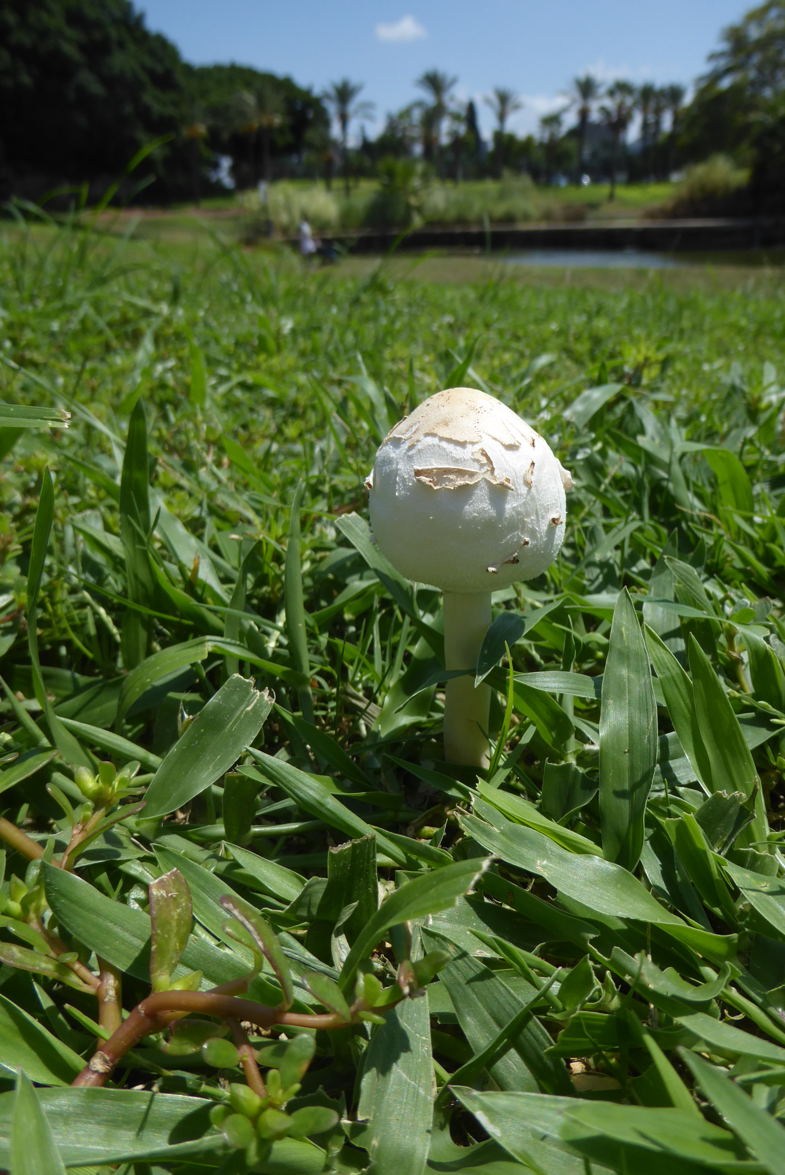 Edith Wolfson Park